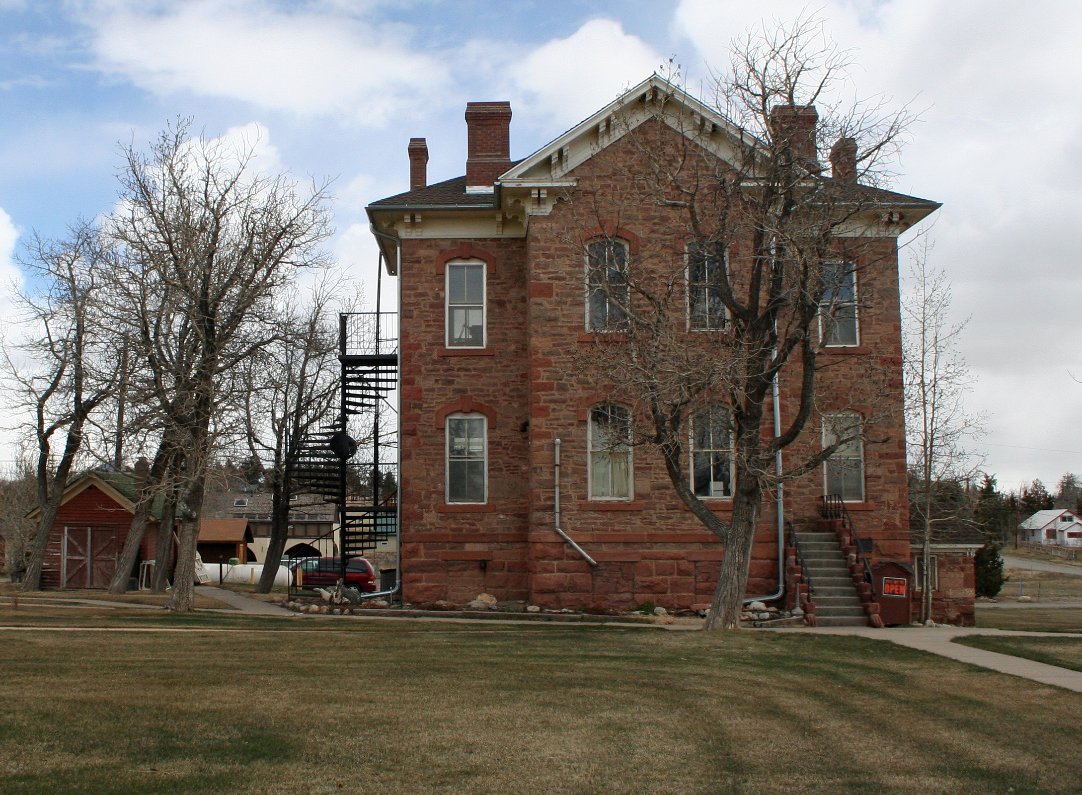 The Park County Courthouse and Jail, located at 418 Main Street in Fairplay, Colorado. The building now serves as the Park County, Colorado Public Library. It is listed on the National Register of Historic Places in Park County, Colorado.